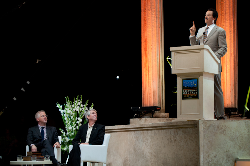 Dr Michael D Evans speaking in Caeserea, Israel at Glenn Beck Restoring Courage Event, August 2011